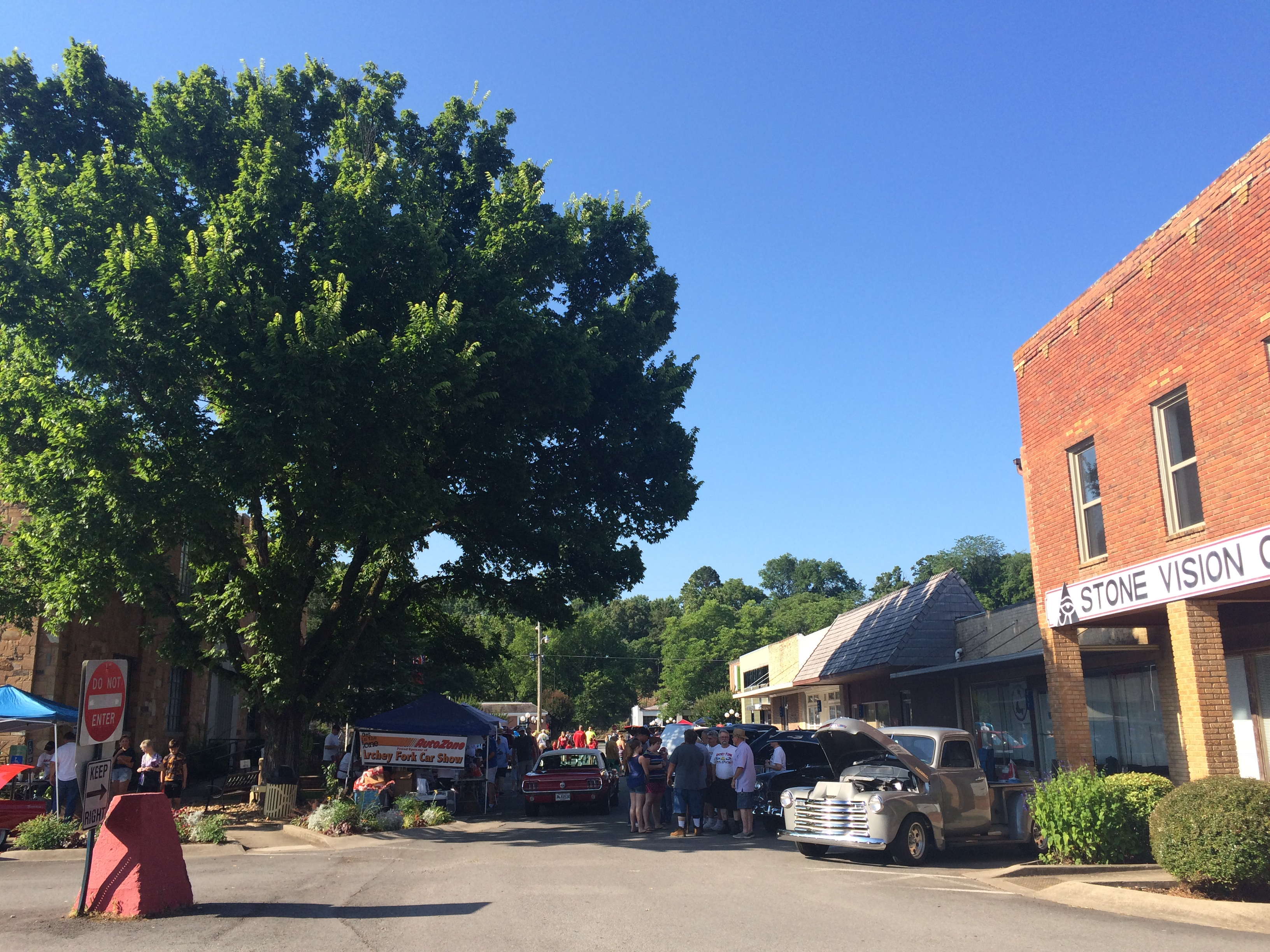 Clinton's downtown district includes numerous buildings of historic interest, include the Van Buren County Courthouse which is on the Arkansas Historic Register.